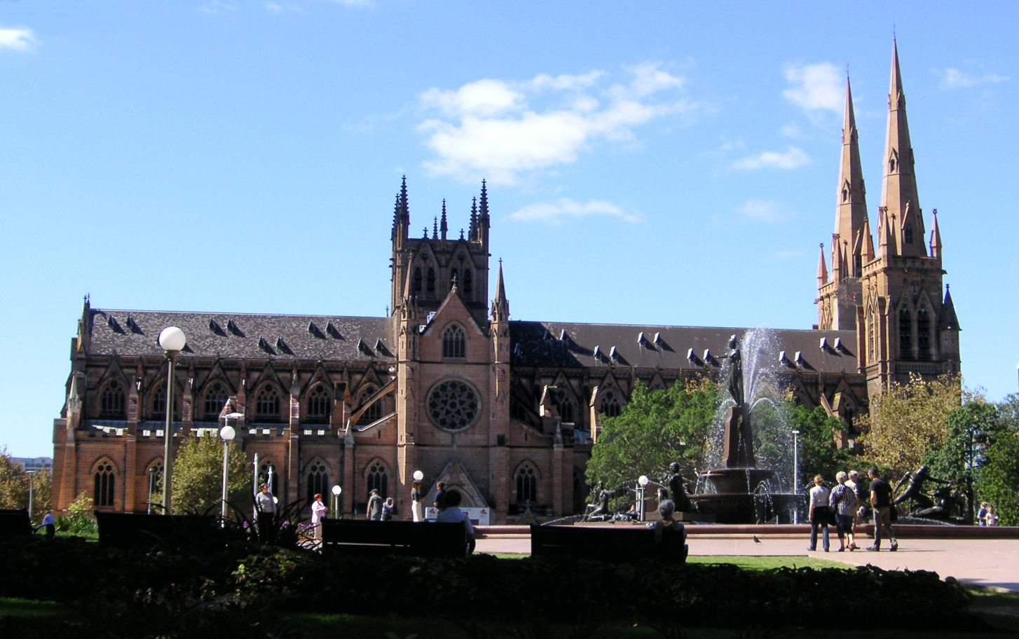 Sydney, St Mary's Roman Catholic Cathedral, architect William Wardell, begun 1880s, spires 2000.